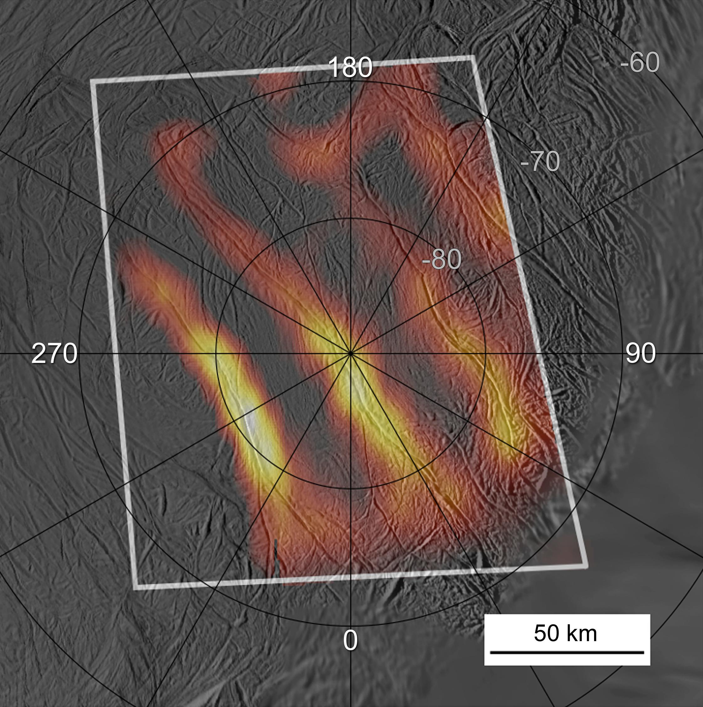 Thermal map of cracks near south pole of Enceladus